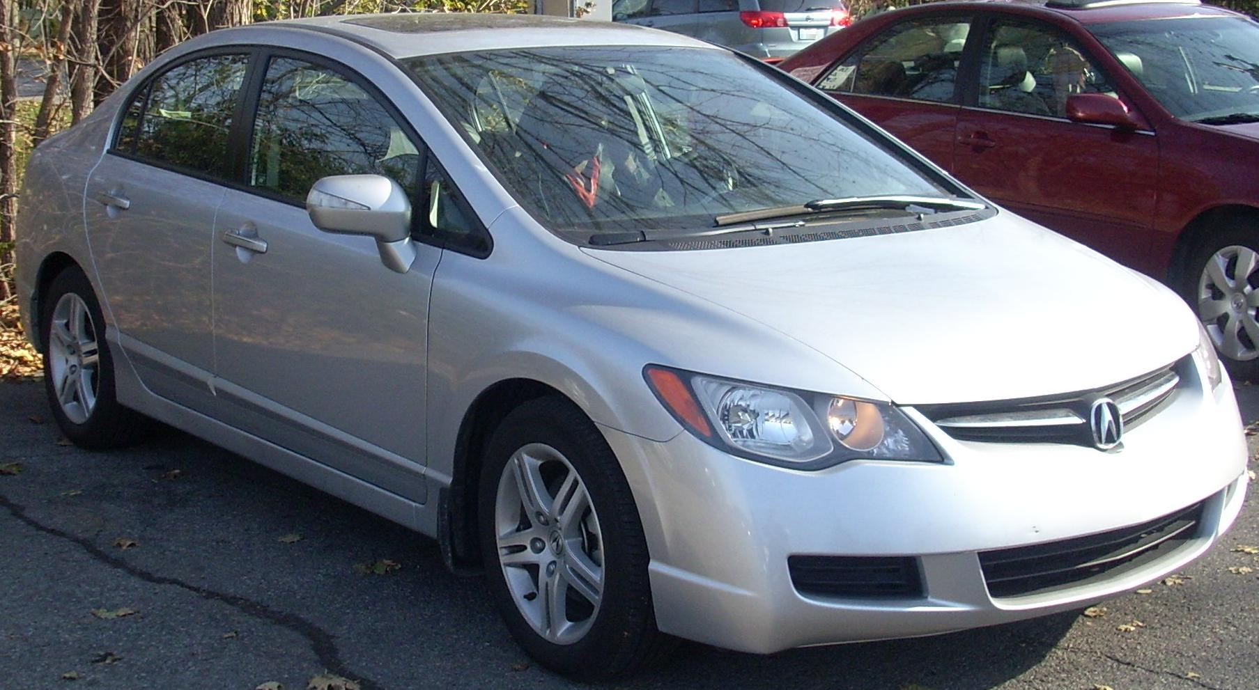 2007 Acura CSX photographed in Montreal, Quebec, Canada.